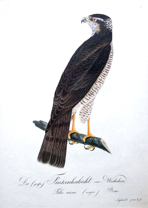 Eurasian Sparrowhawk female, (Falco nisus = Accipiter nisus), from "Teutsche Ornithologie oder Naturgeschichte aller Vogel Teutschlands in naturgetreuen Abbildungen und Beschreibungen", drawn and engraved by Johann Conrad Susemihl and published by M. B. Borkhausen in Darmstadt, Germany, in 1805.